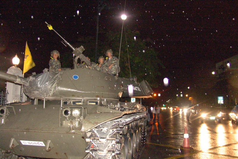 As the tanks rolled in, a slight out-of-season drizzle poured over the city. Raindrops glittering like snow balls upon the reflection of camera flashbulbs.Manik Sethisuwan 02:08, 4 February 2007 (UTC)